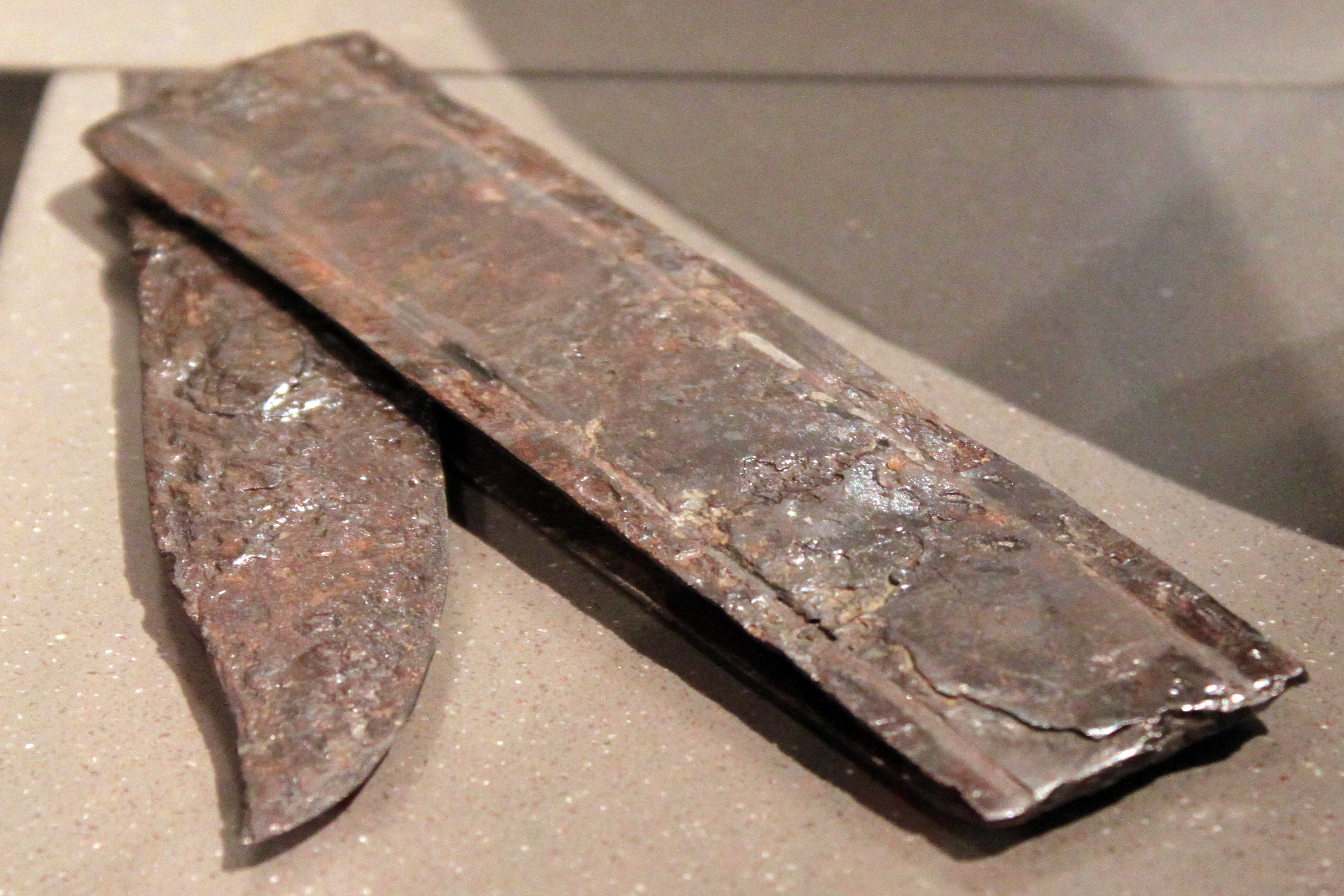 Folding knife from Inzing, Bavaria (Germany); early 8th century; Neues Museum Berlin